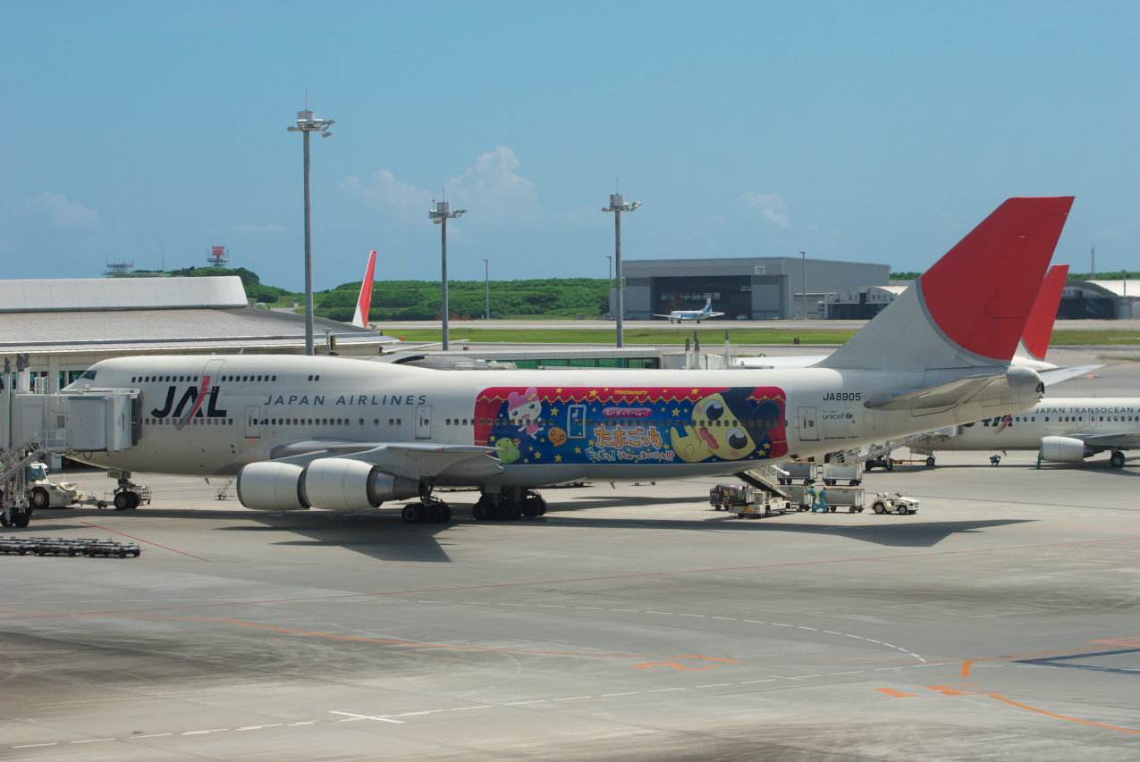 JAL B747-446D (JA8905) Tamagotti Jet 2007(port side) Naha airport (OKA/ROAH),Japan from observation deck 2機あるたまごっちジェット2007の1機。もう1機のJA8904もこの直前まで那覇空港にいたようです。ONE WORLD塗装機も到着時に見かけました。